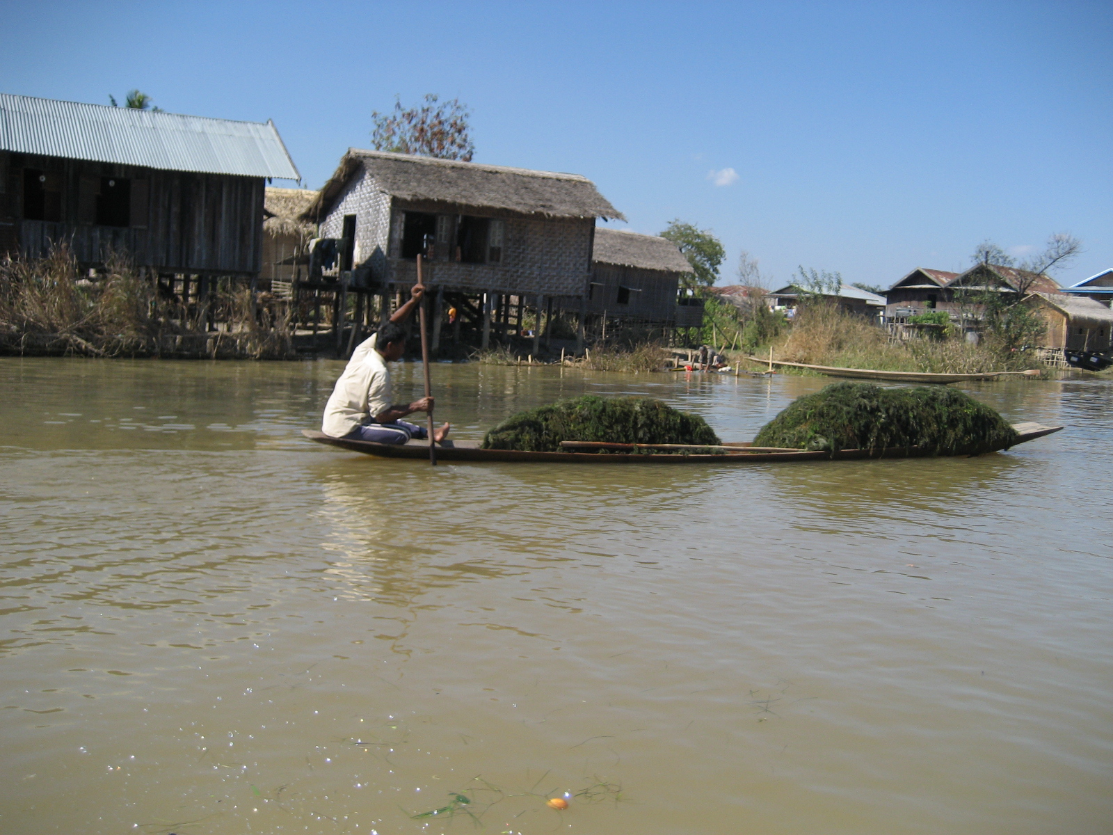 On the way home from harvesting weeds on Inle Lake, Shan State, Myanmar